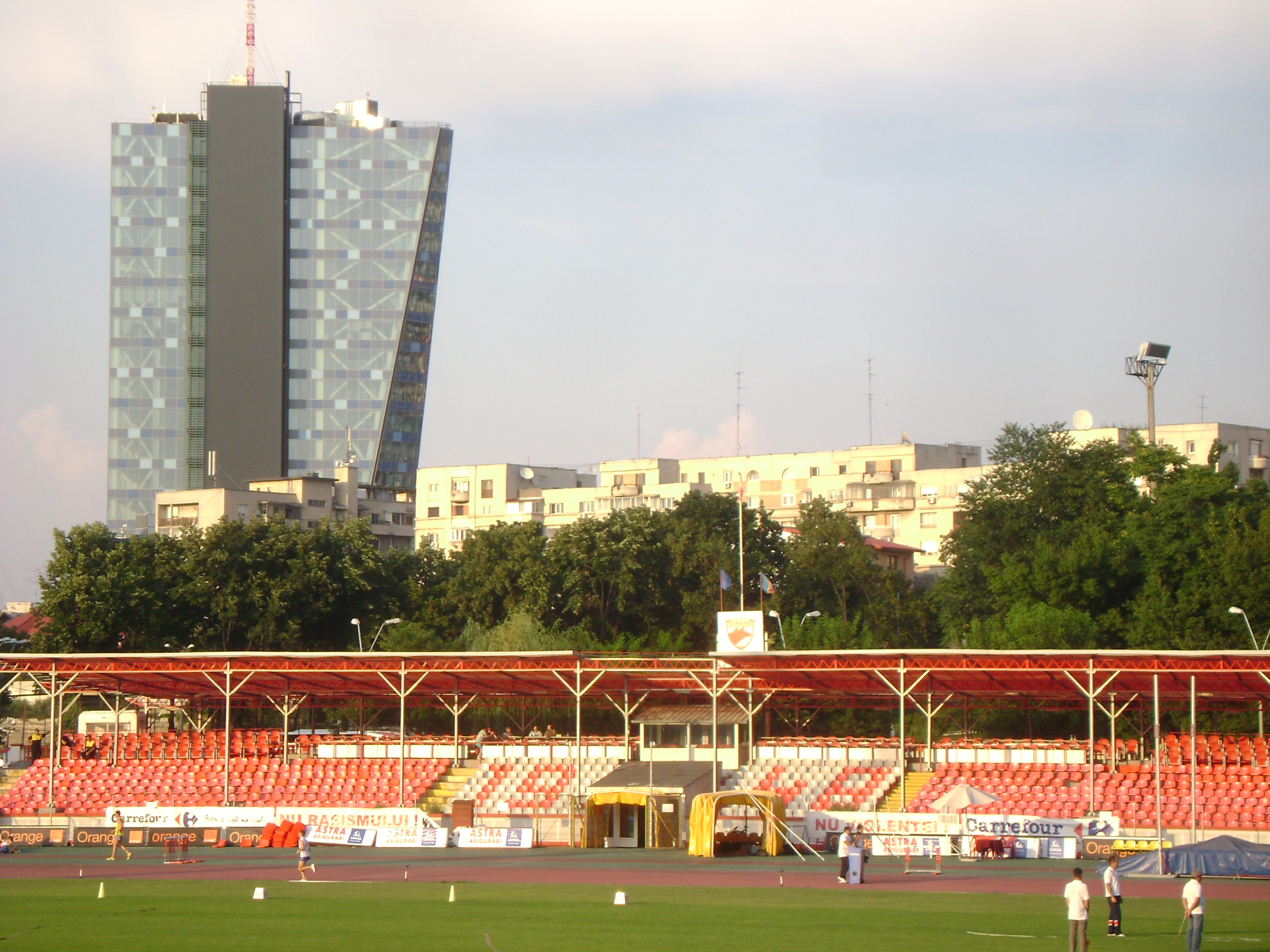 Dinamo Stadium during "Campionatul Naţional de atletism pentru seniori şi tineret 16-17 iulie 2010"